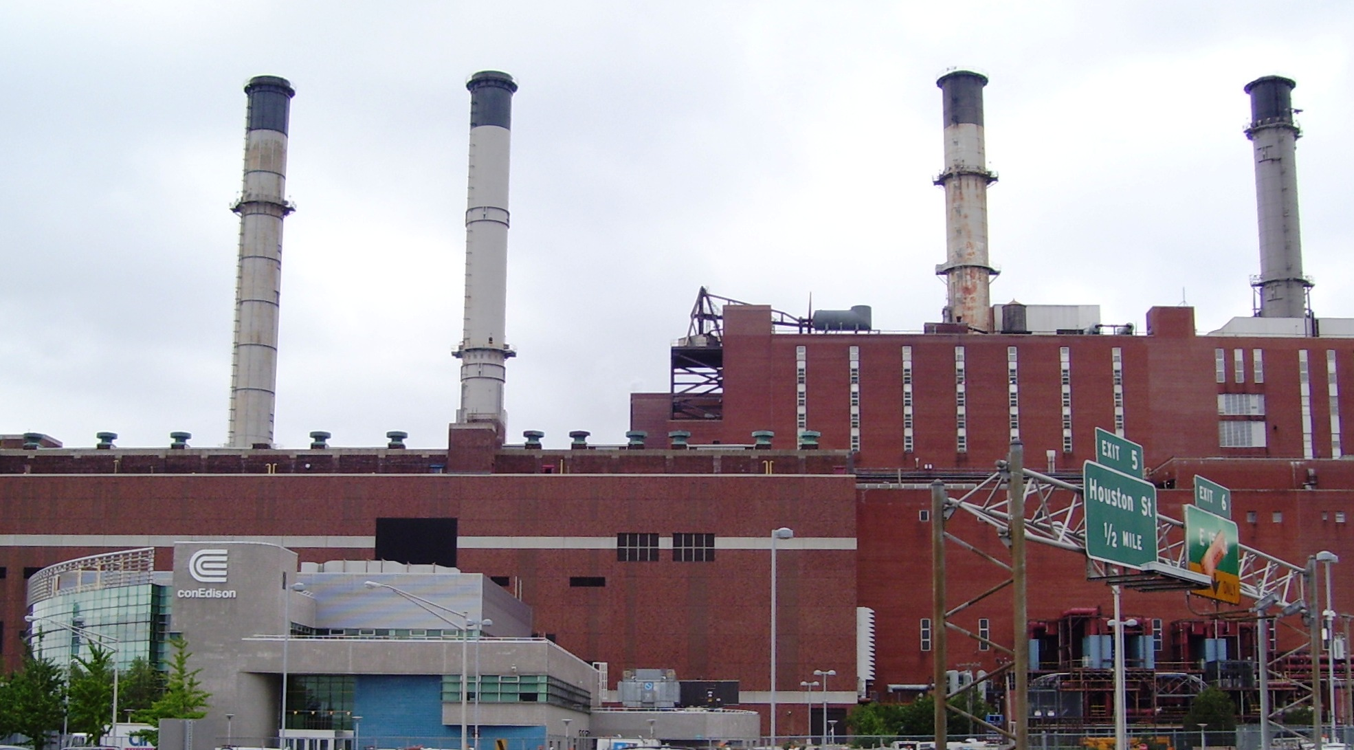 Con Edison plant on the East River at 15th Street in Manhattan, New York City, seen from Stuyvesant Cove Park.